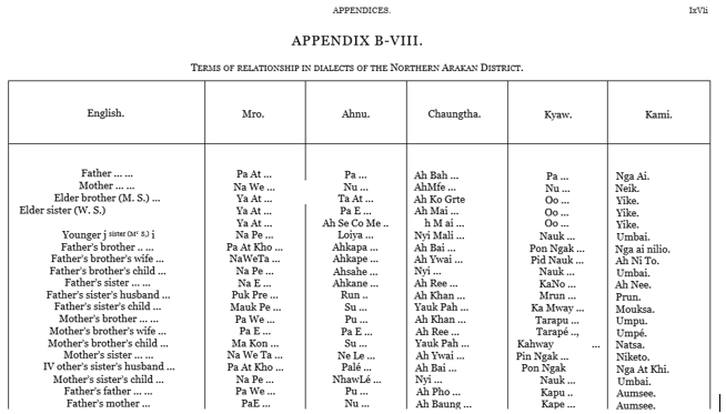 Mro Language and Other Language comparison